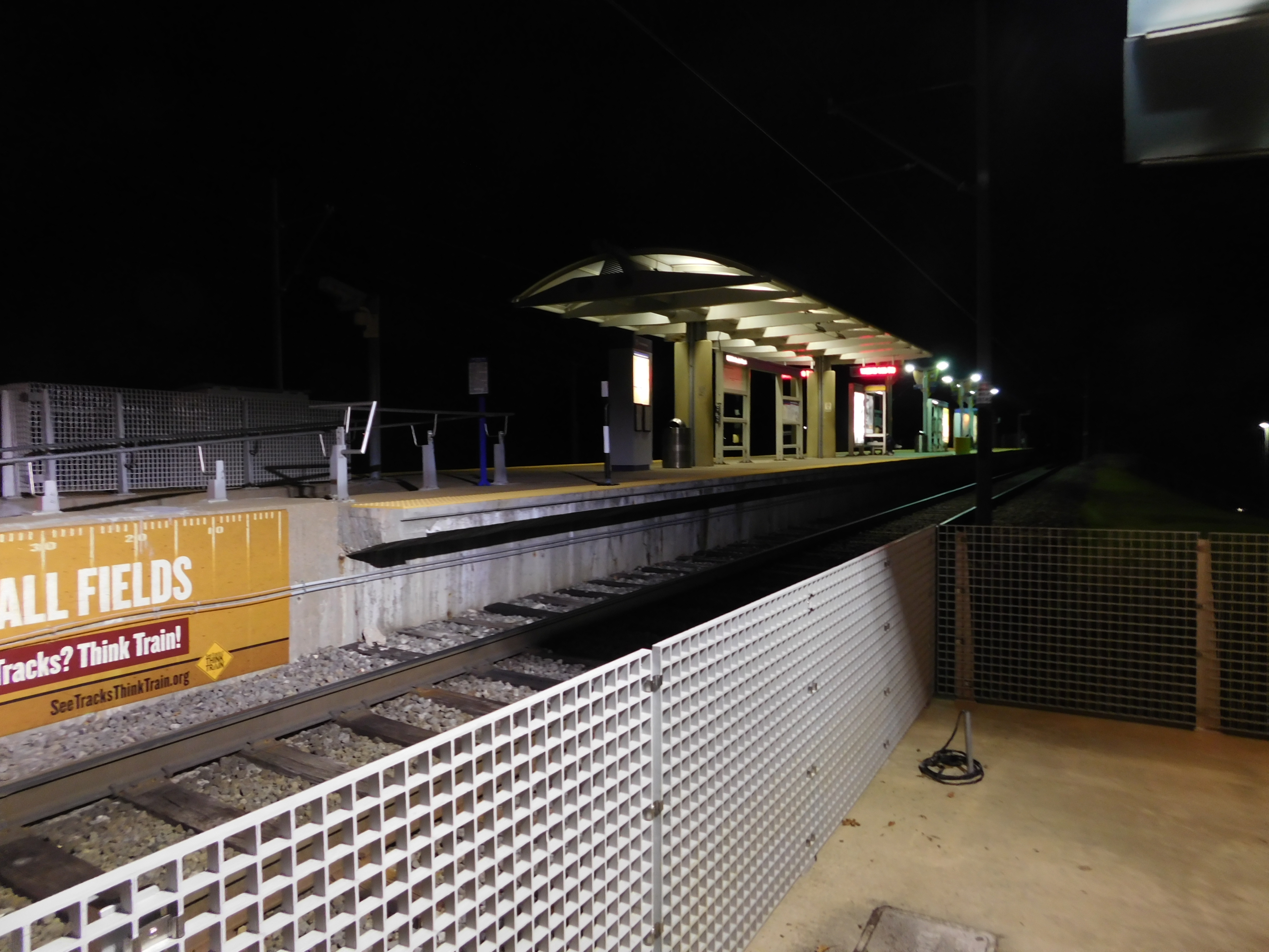 Wellston, Missouri